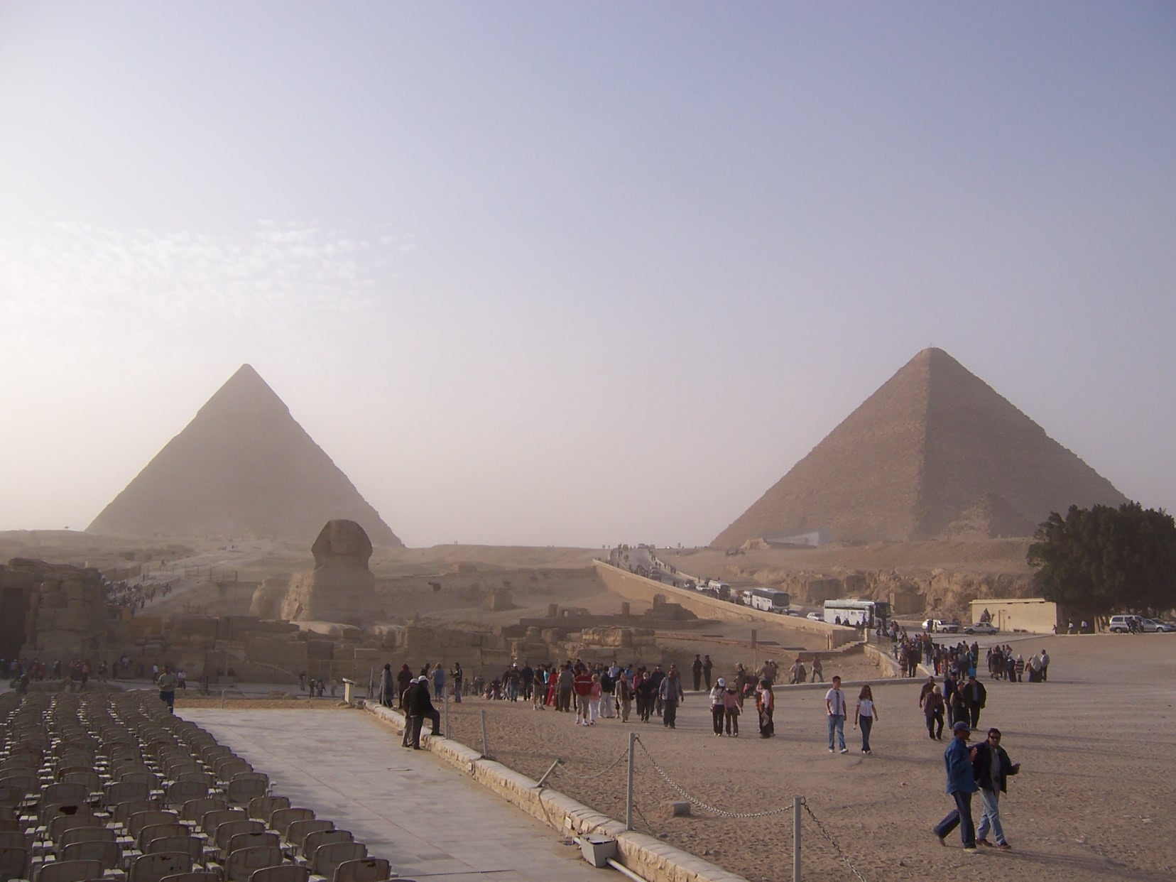 The Pyramids of Giza, Egypt